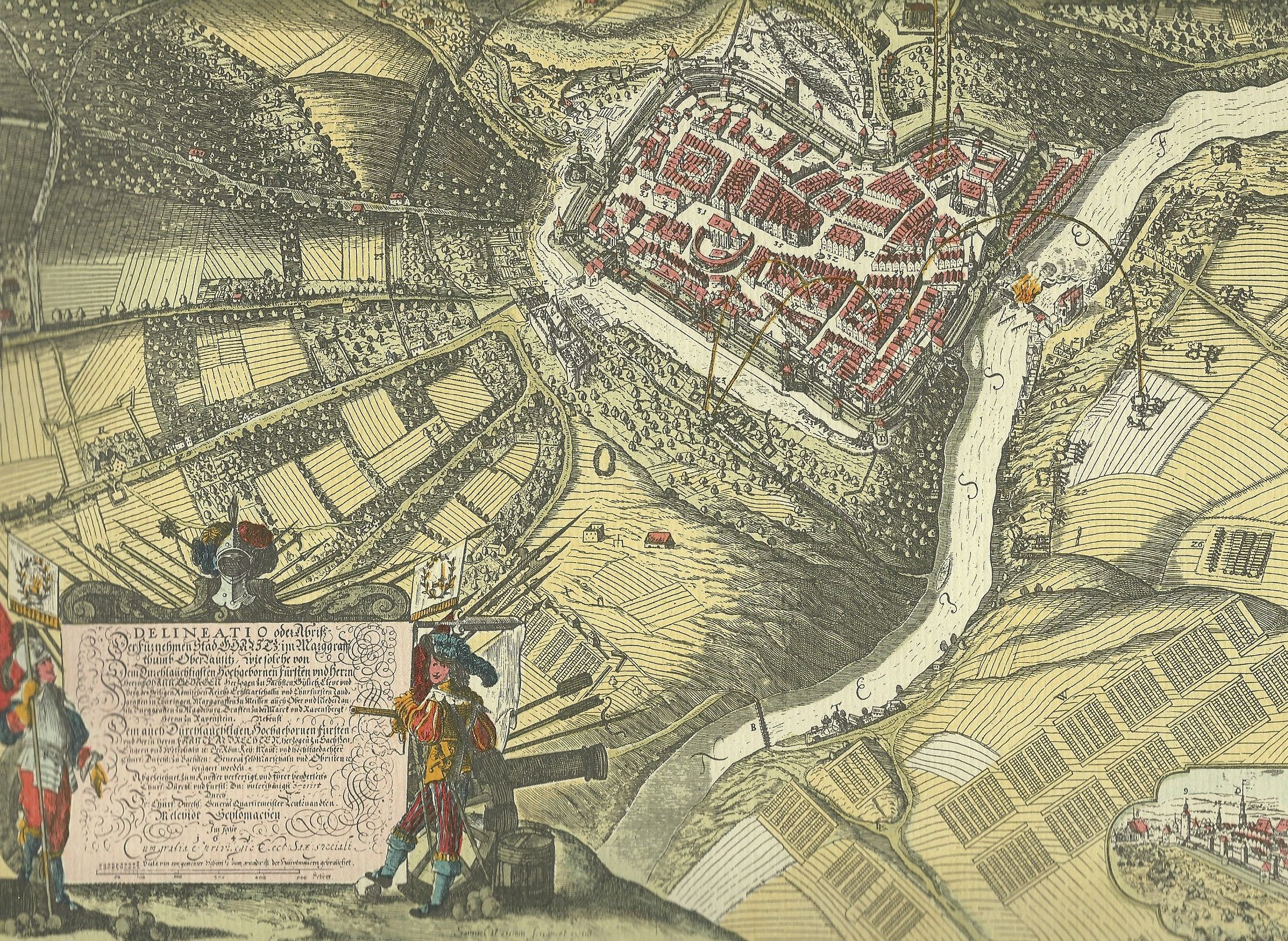 Siege and bombardment of swedish occupied Görlitz by imperial and saxonian troops, 1641